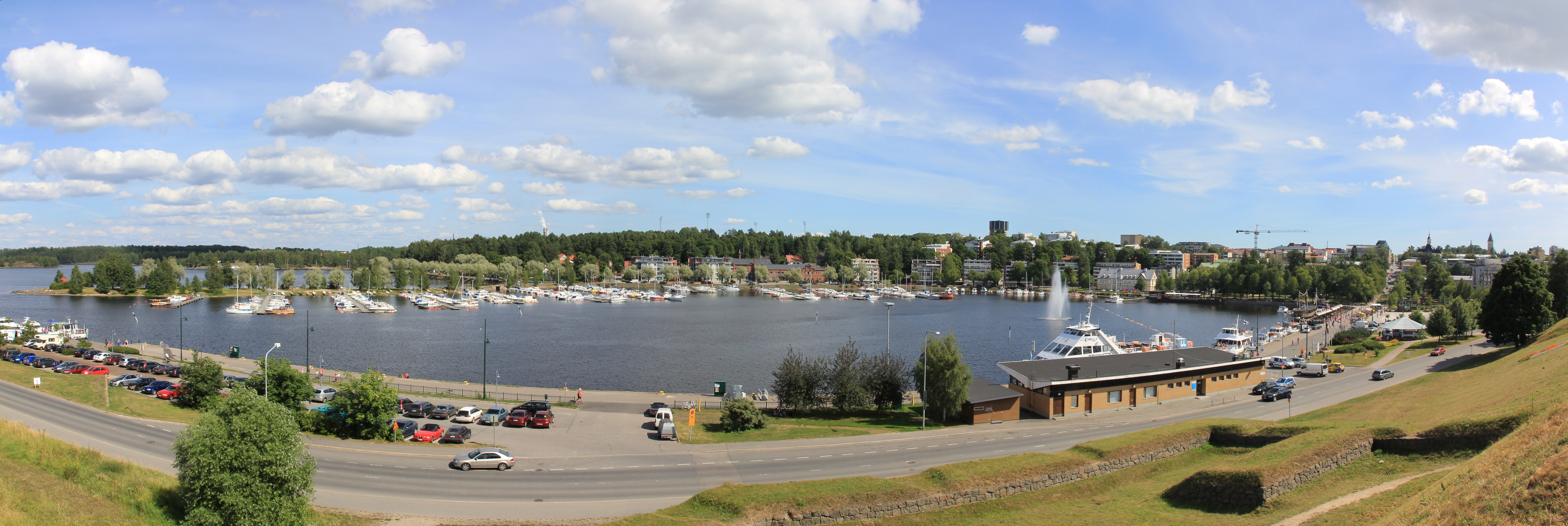 Panoramic view of Lappeenranta harbour.